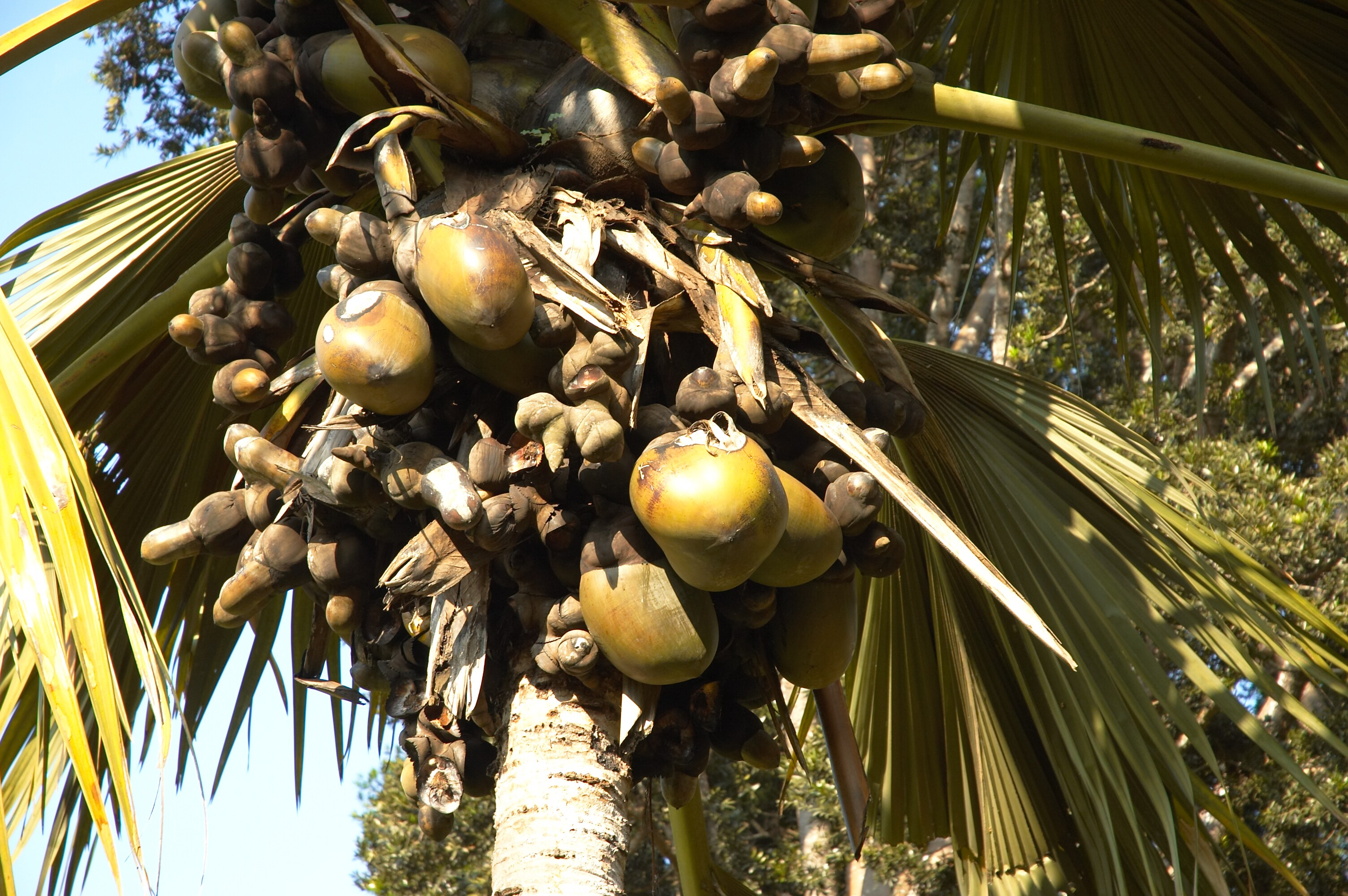 Lodoicea Maldivica, Coco de mer, in the botanic garden at Peradenia, a suburb of Kandy (Sri Lanka).